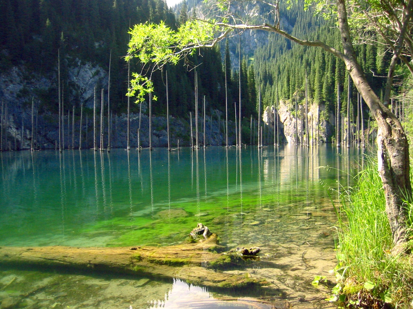 Kaindy lake in Kazakhstan. The mountain lakes like this form after the lanslide blocks the mountain river. The trunks are dead Picea schrenkiana trees.